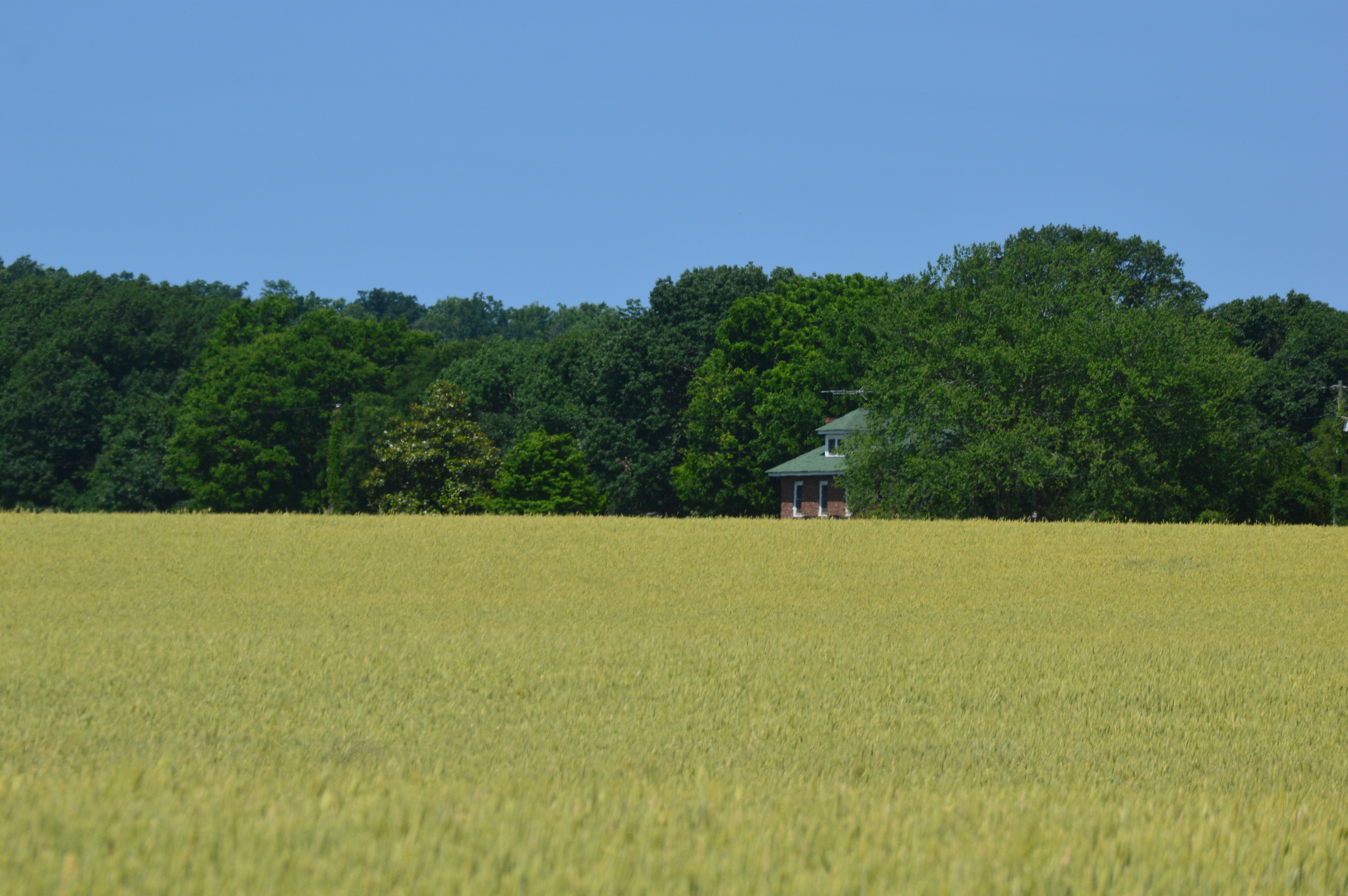 Overview of the former Hazelwood estate, located off Hazelwood Lane northwest of Port Royal in Caroline County, Virginia, United States. The estate is listed on the National Register of Historic Places as an archaeological site.